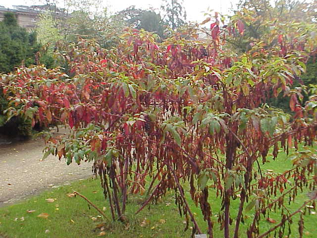 Species: Phytolacca americana Family: Phytolacaceae Image No. 1